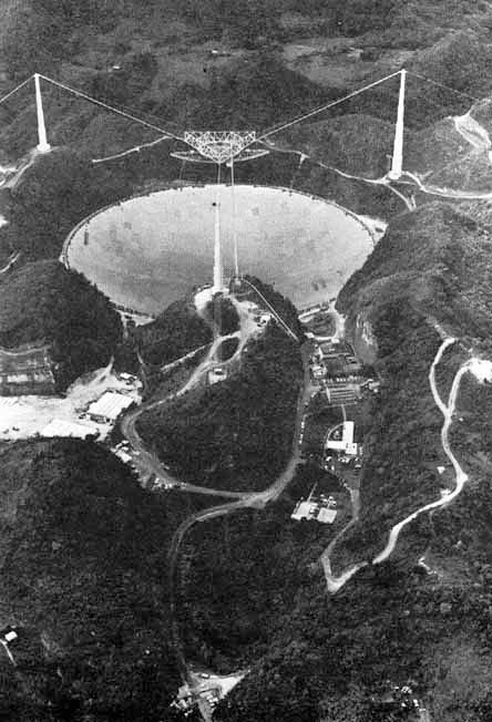 View of Arecibo Observatory in Puerto Rico with its 300 m dish- the world's largest. A small fraction of its observation time is devoted to SETI searches.